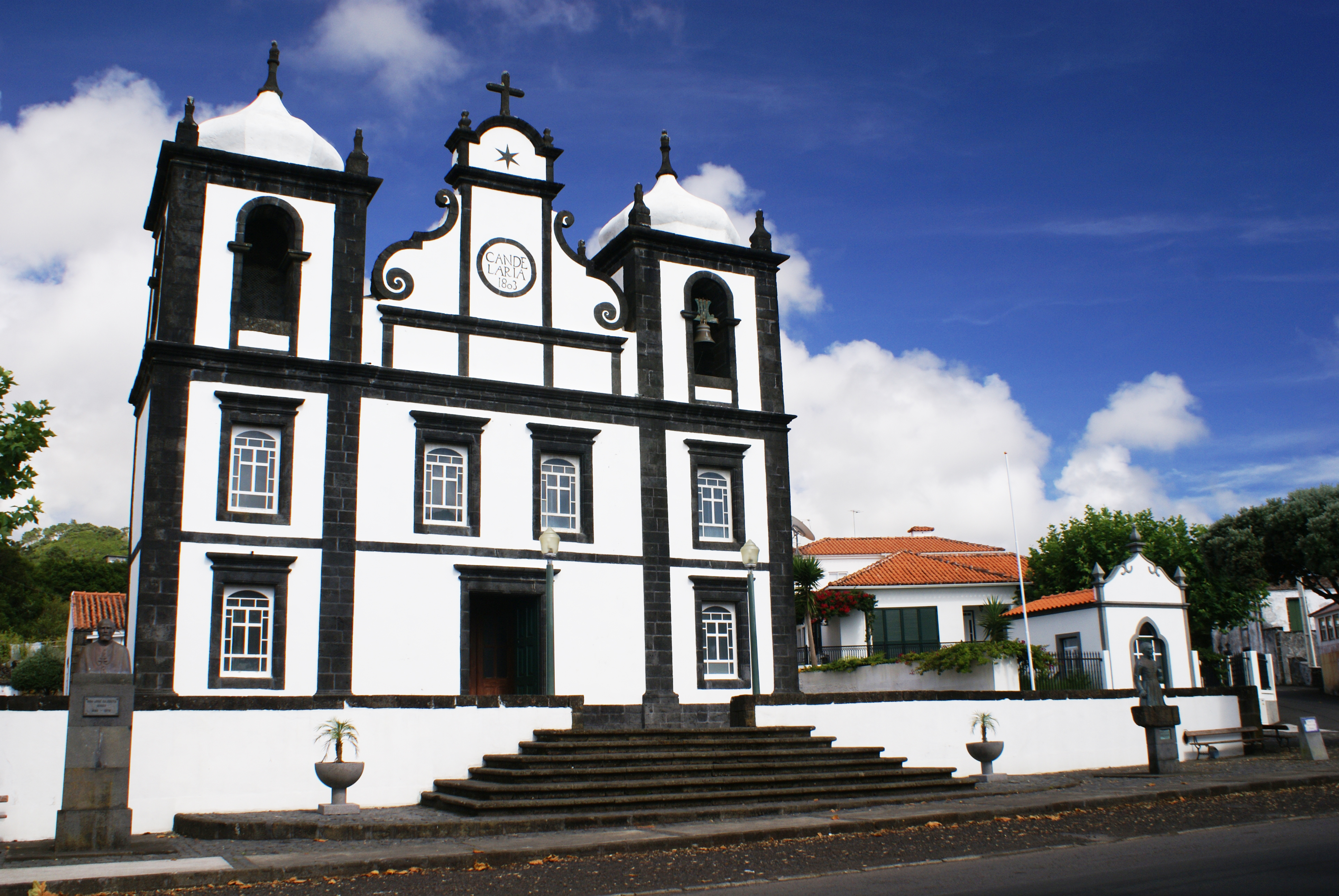 Front façade of the Church of Nossa Senhora da Candeias, Candelária, Madalena, Pico (Azores), Portugal